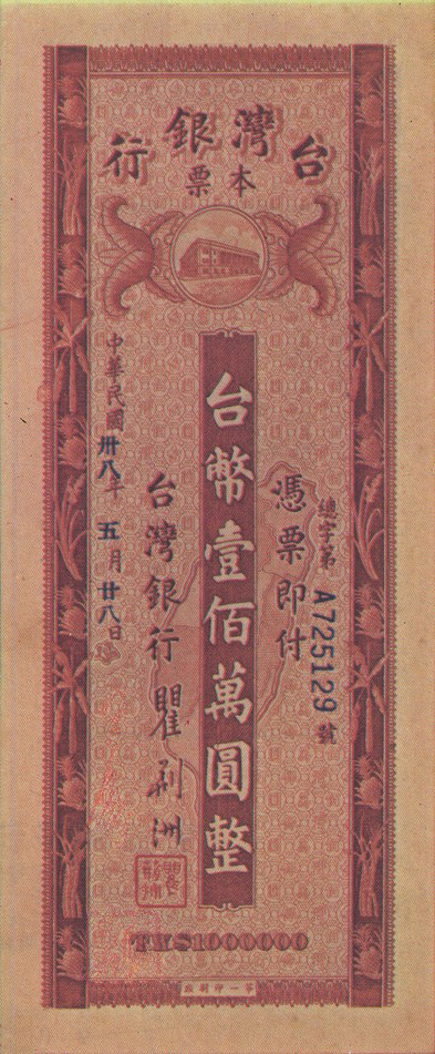 Bearer's check of 1,000,000 Old Taiwan dollars issued by Bank of Taiwan. In the earlier years of KMT rule, Taiwan suffered from severe inflation due to the corruption of Nationalist ROC government. The currency deflated so fast that the ruling government had to issue currency with denominations on the order of 1 million dollars. Authorities would later issue the New Taiwan Dollar to replace the deflated Taiwan Dollar in an exchange rate of one to four million. (These notes must be distinguished from the one's the Japanese Taiwan Ginkō issued under the same English name 1899-1945)